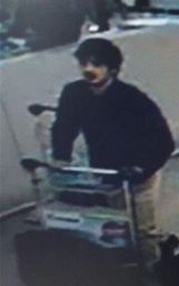 Suspects in the 2016 Brussels bombings filmed by a CCTV camera. Left to right: Najim Laachraoui, Ibrahim El Bakraoui and Mohamed Abrini.